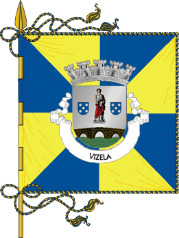 Flag of Vizela municipality (Portugal) Made by User:Brian Boru, based on a crest of Sérgio Horta